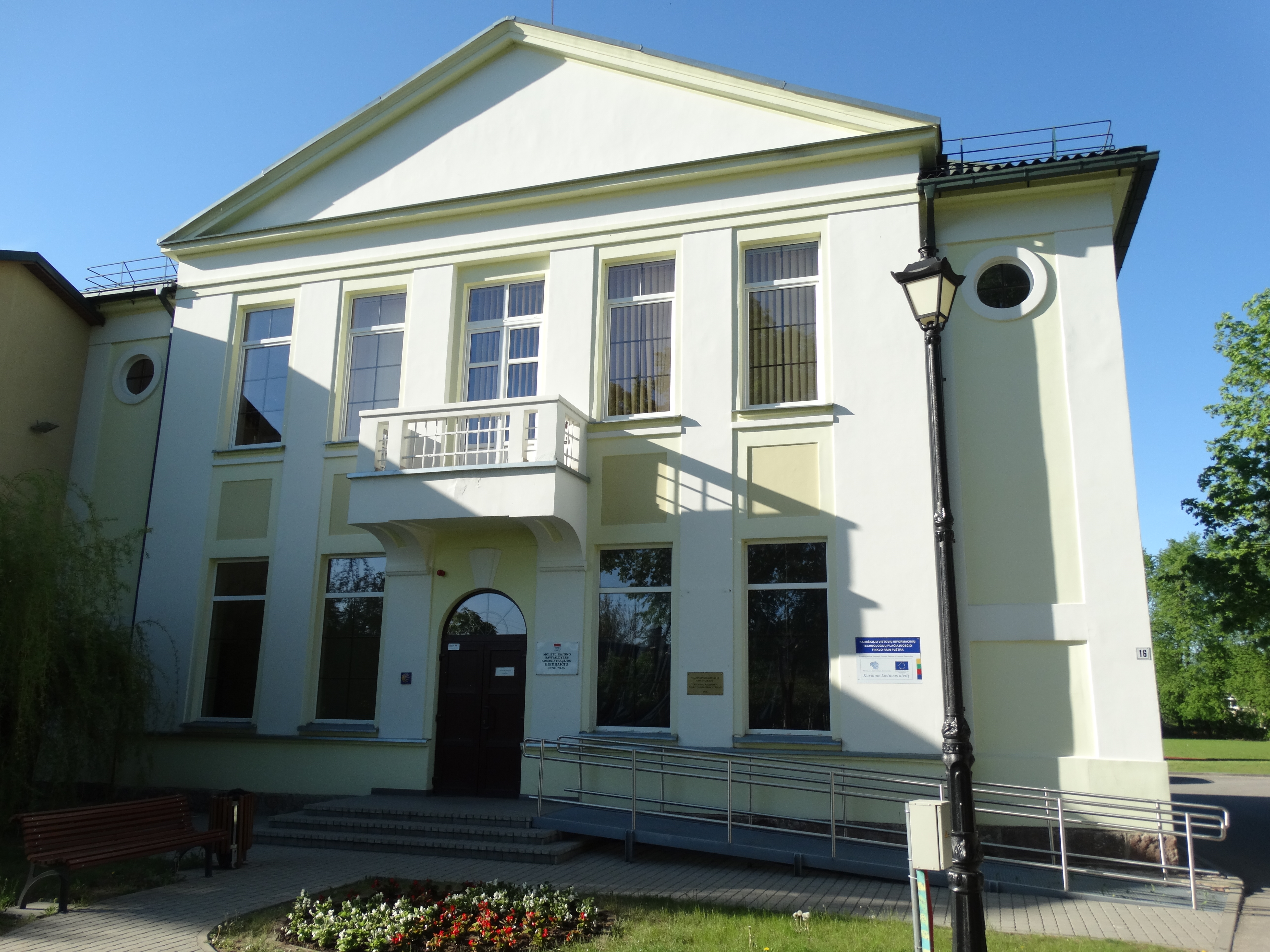 Eldership, Giedraičiai, Molėtai district, Lithuania